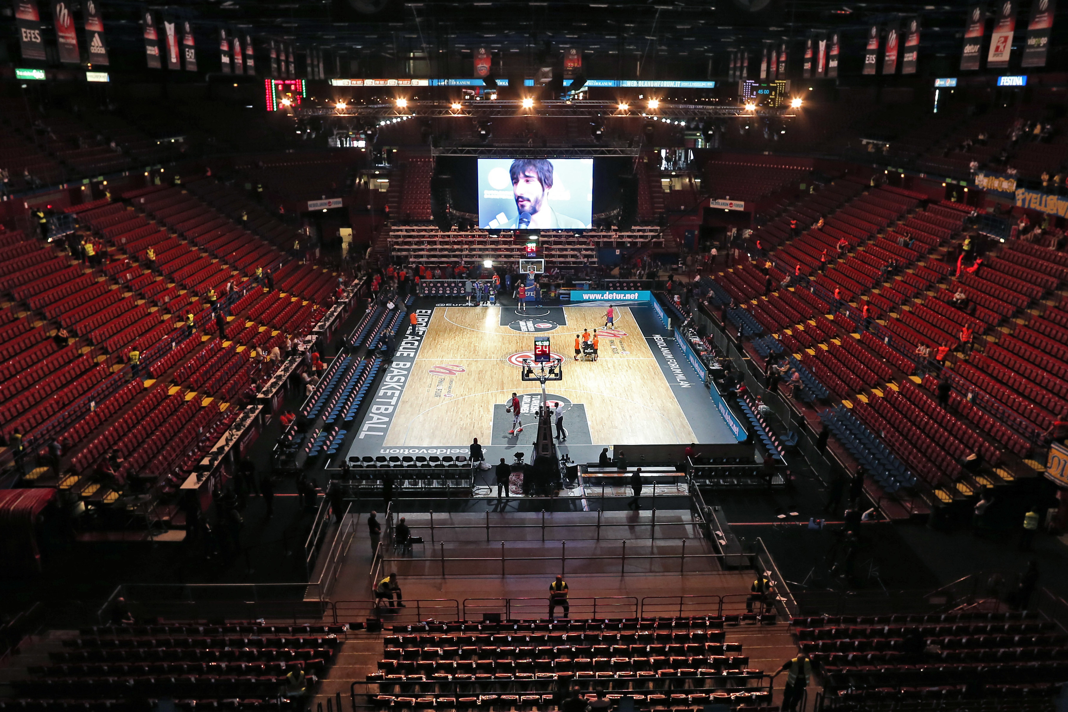 Forum di Assago during staging for the Euroleague Final Four 2014.